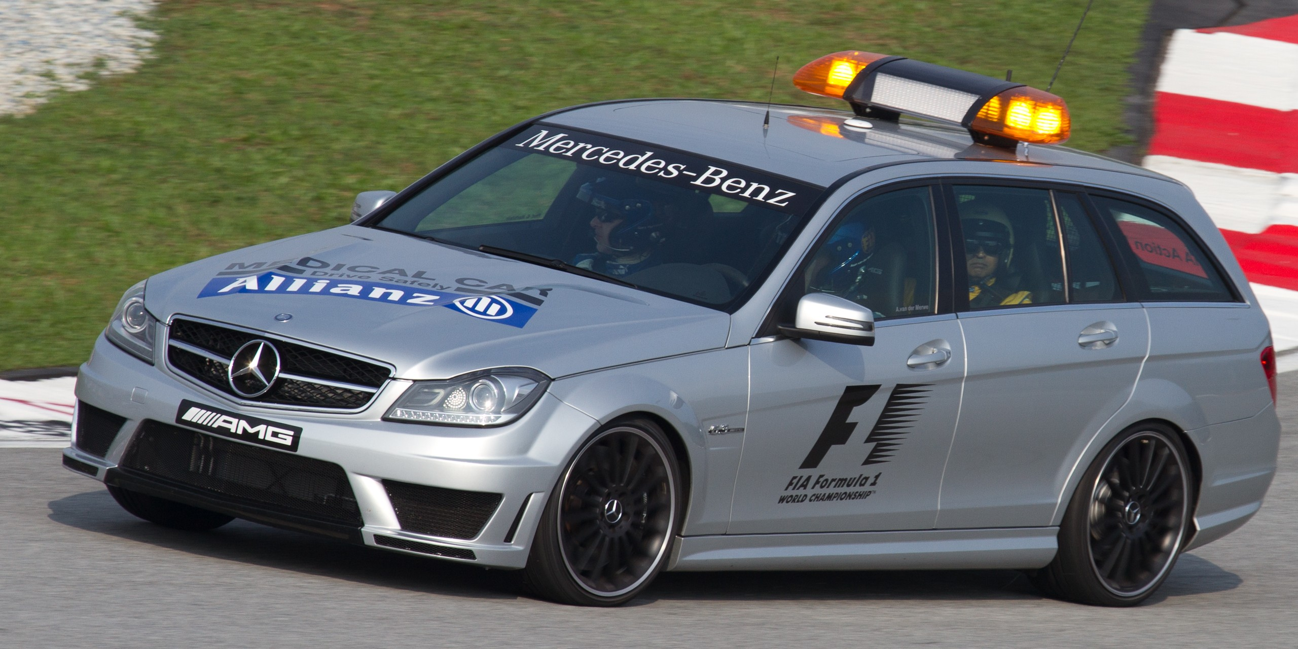 Alan van der Merwe and dr. Gary Hartstein on the Mercedes-Benz C63 (S204) AMG Formula One Medical Car, at 2012 Malaysian Grand Prix